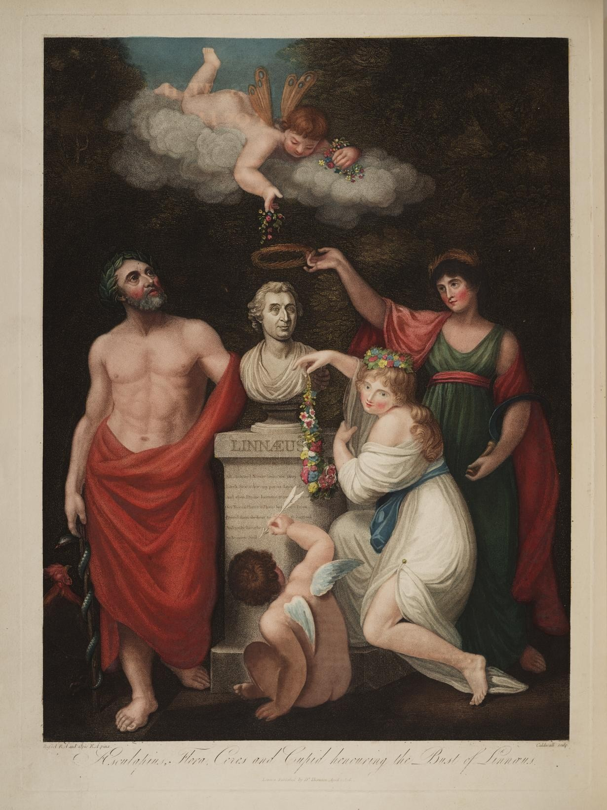 Aesclepius, Flora, Ceres and Cupid honouring the Bust of Linnaeus.